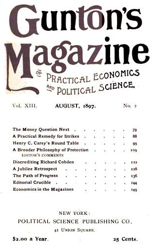 Gunton's Magazine (New York : Political Science Pub. Co.)